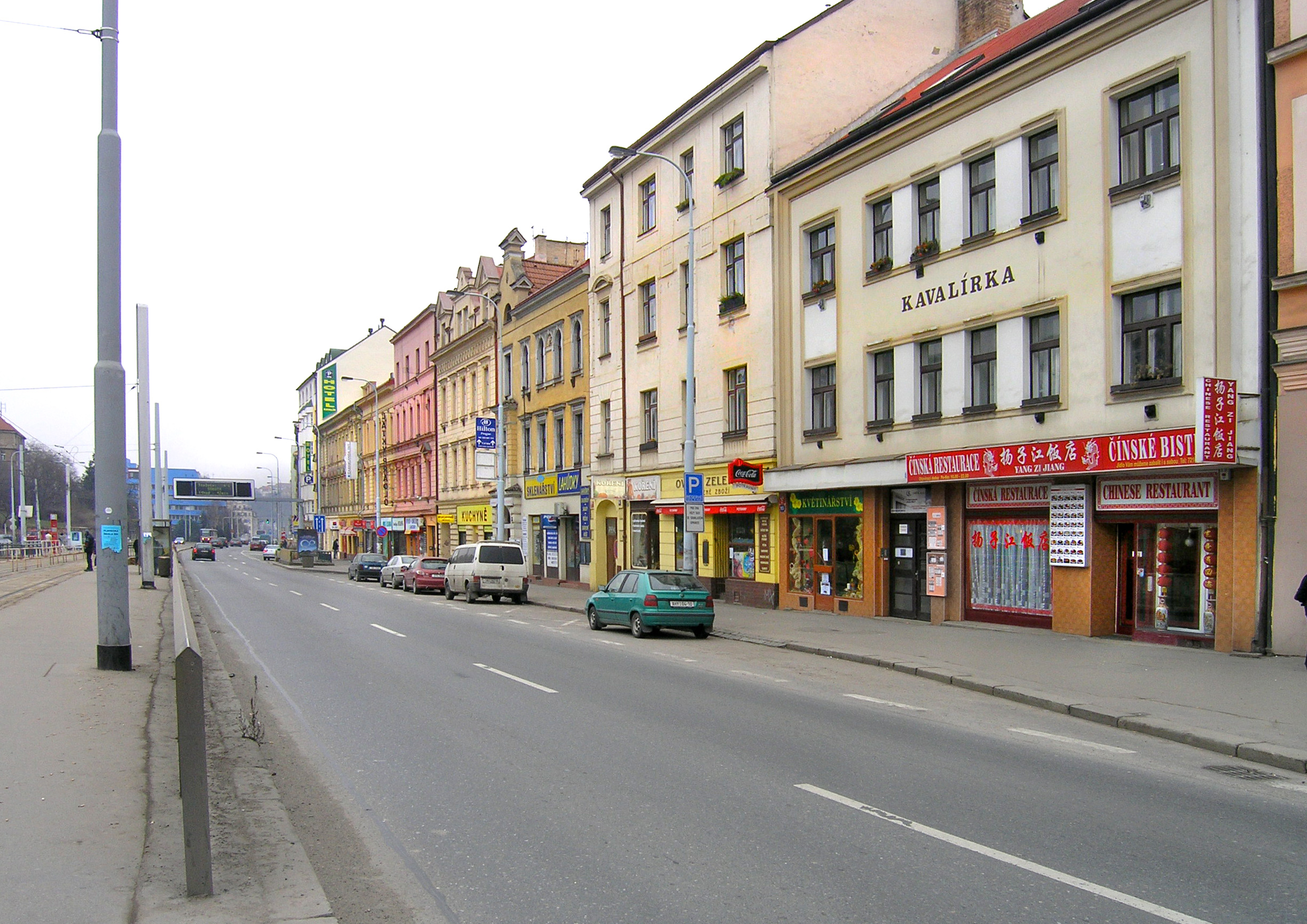 Plzeňská street at Košíře, Prague